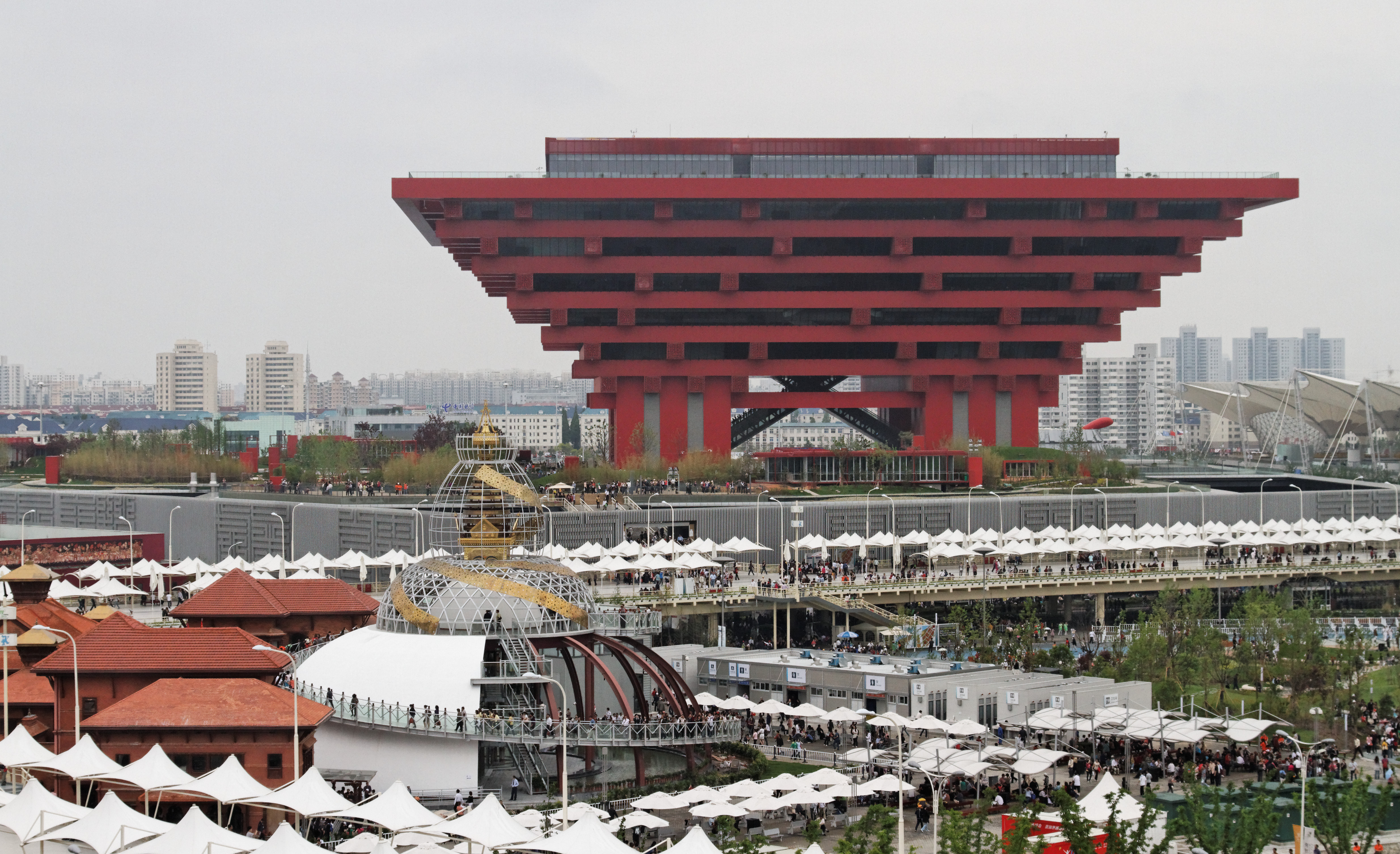 China Pavilion of Expo 2010, seen from Expo Culture Center. Nepal Pavilion in the foreground.